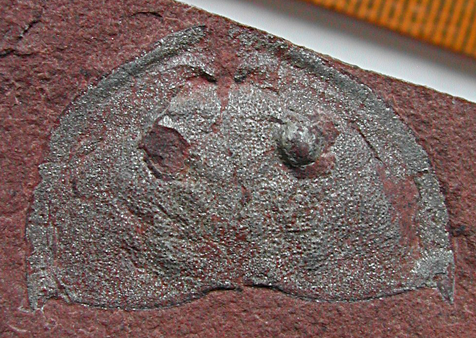 A cephalon of Beckwithia typa, an arthropod, Class Merostomata, Family Aglaspididae, 25 mm along the midline, collected in the Weeks Formation, Utah, USA, from the Middle Cambrian